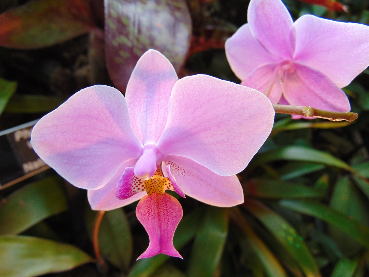 Phalaenopsis veitchiana, Phipps Conservatory, PittsburghPlease respect author's moral rights by not changing this description or the image title.